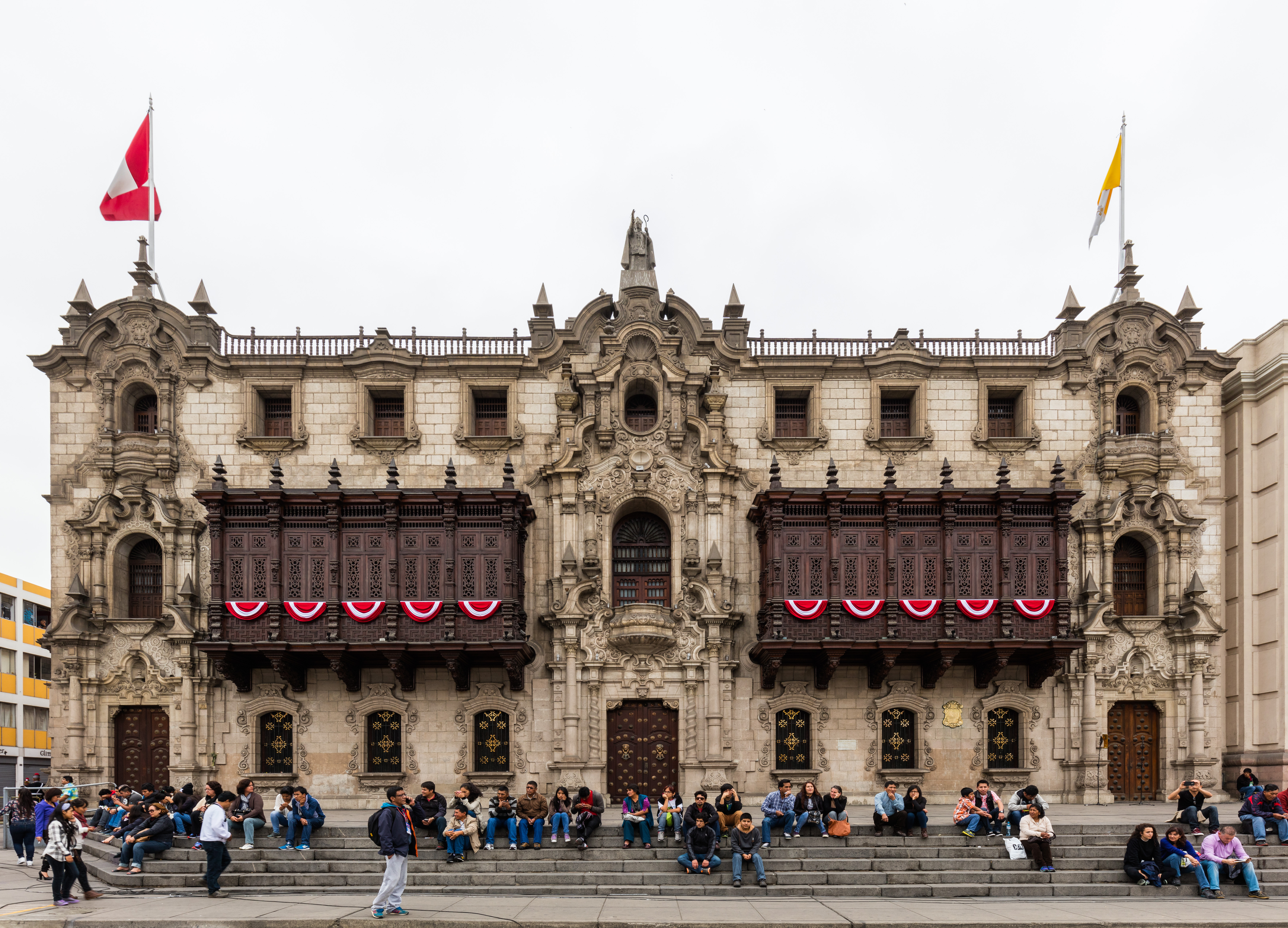 Archiepiscopal Palace, Lima, Peru